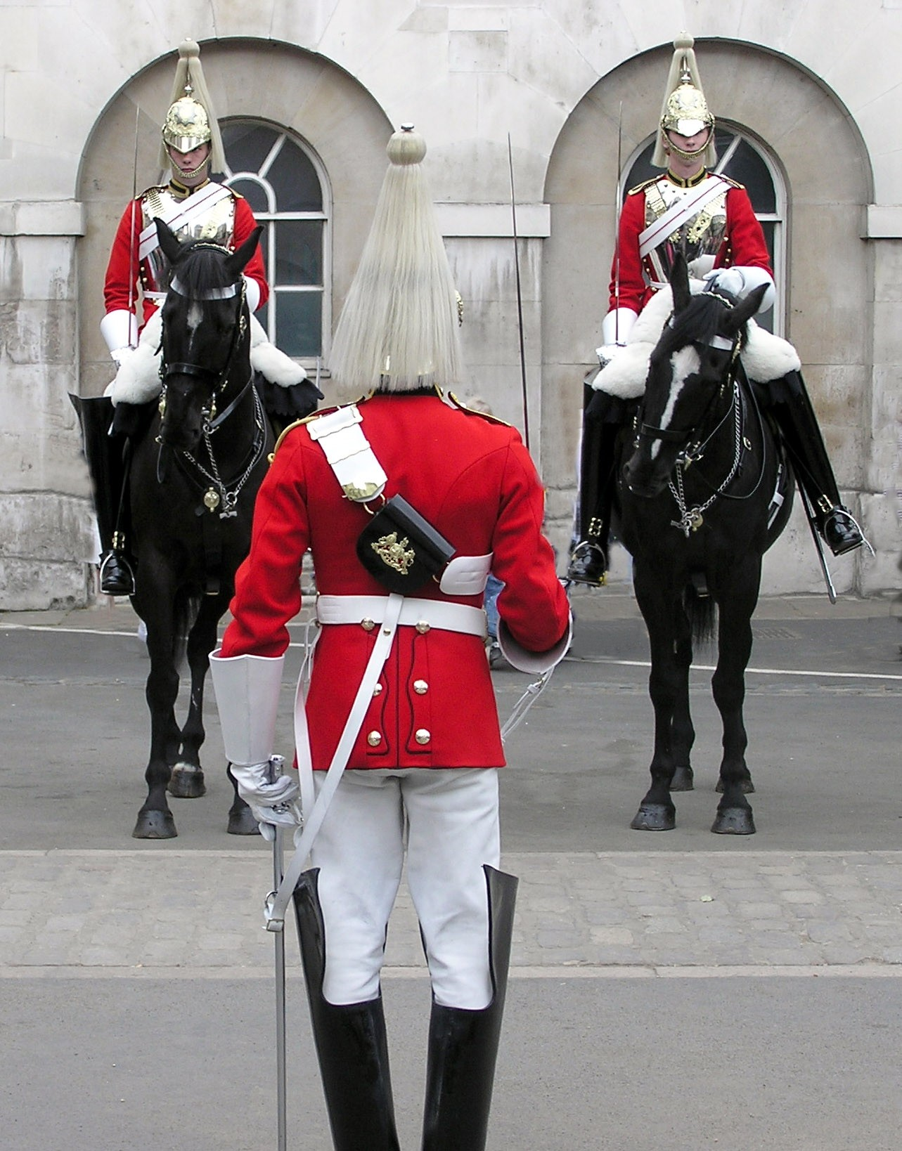 Part of the ceremony of the Changing of the Guard in Whitehall, London, England. Photographed by Adrian Pingstone in June 2005 and released to the public domain.